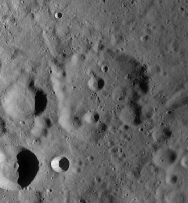 Soddy lunar crater. LROC WAC view No. M130856596ME Processed by LROC_WAC_Previewer.